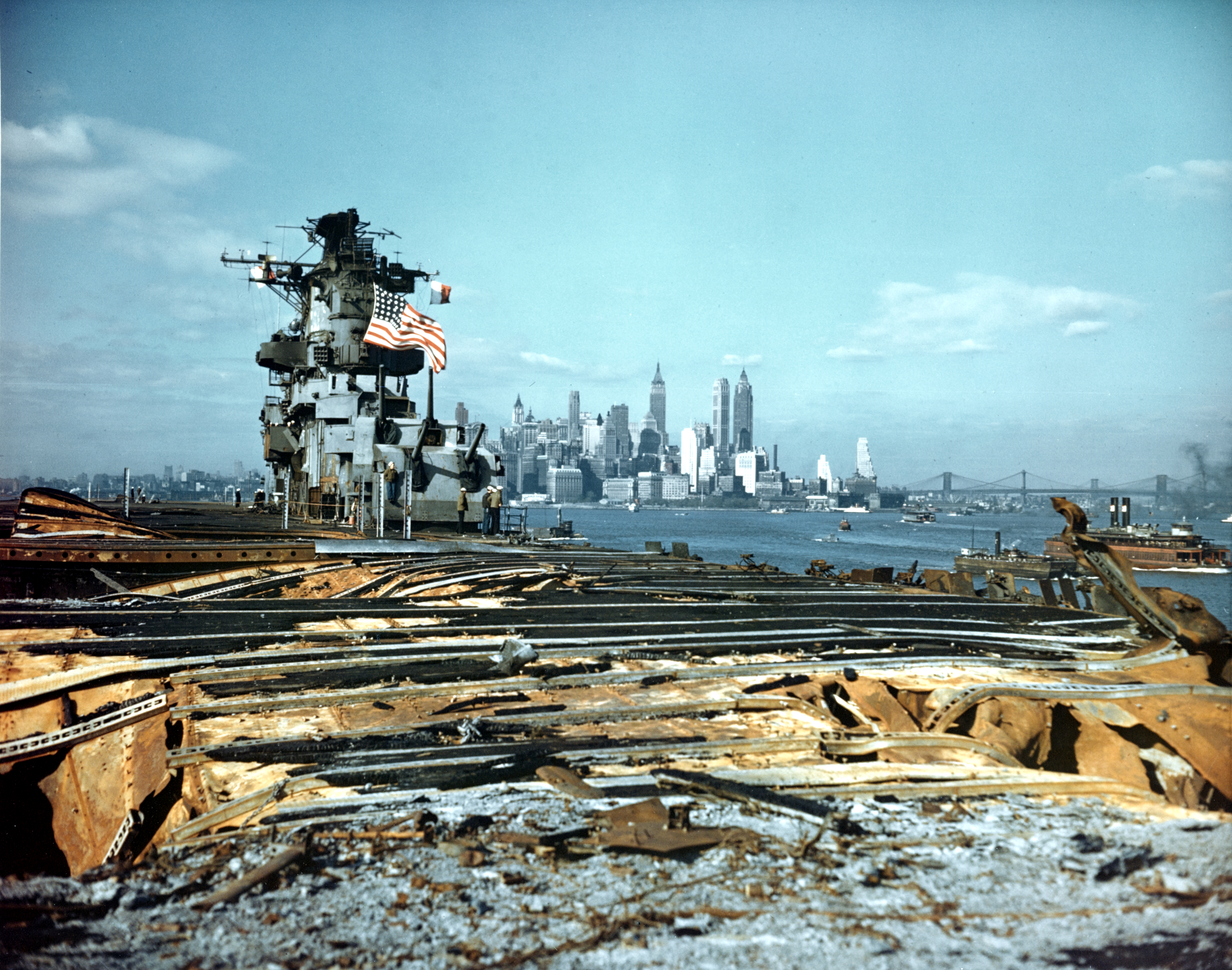 View on the flight deck of the U.S. Navy aircraft carier USS Franklin (CV-13), looking forward, while the carrier was in New York Harbor (USA), circa 28 April 1945. She had just returned from the Pacific for repair of battle damage received off Japan on 19 March 1945. Note the damage to her flight deck, the large U.S. ensign flying from her island, and the Manhattan skyline in the background.